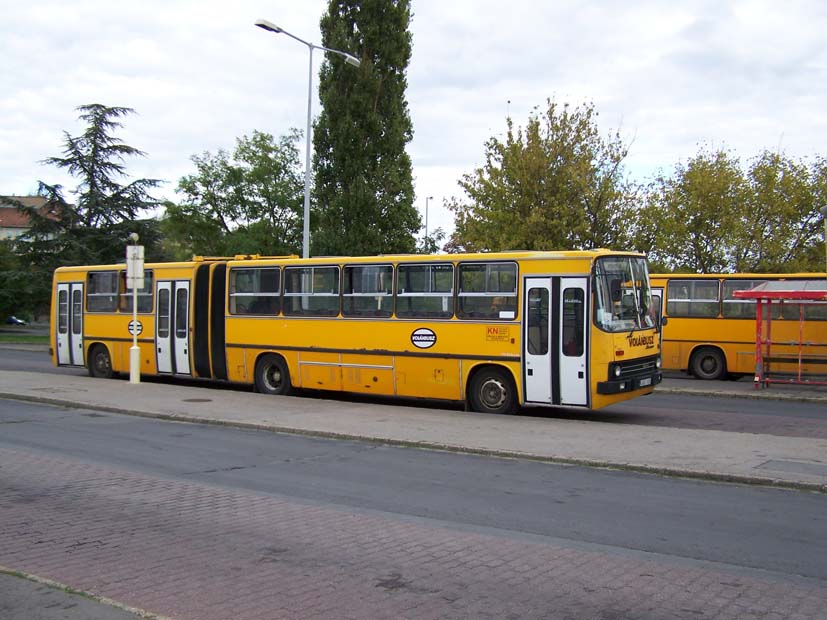 Ikarus 280 Volánbusz, Szentendre (Hungary)